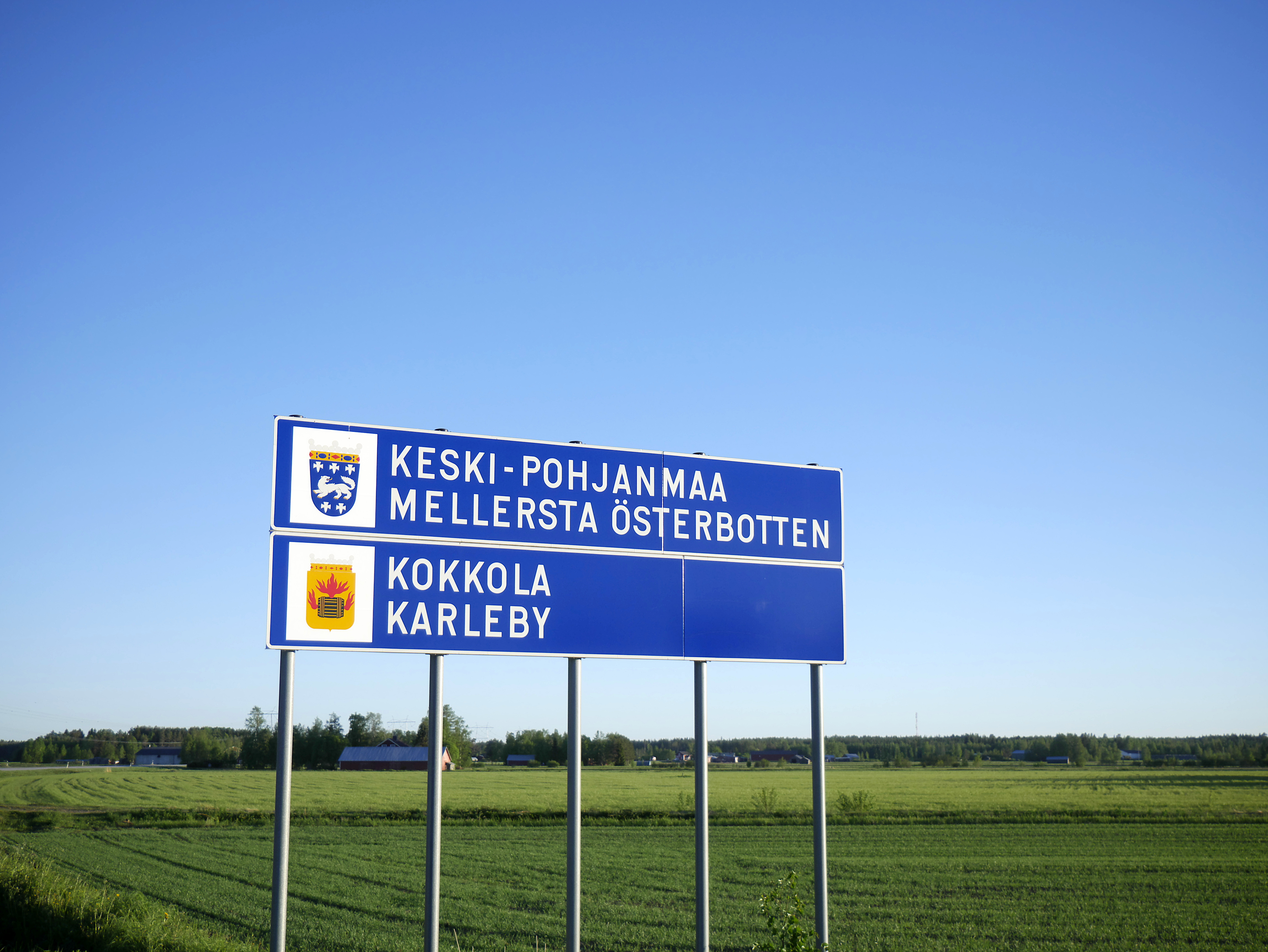 Central Ostrobothnia region and Kokkola town border sign.